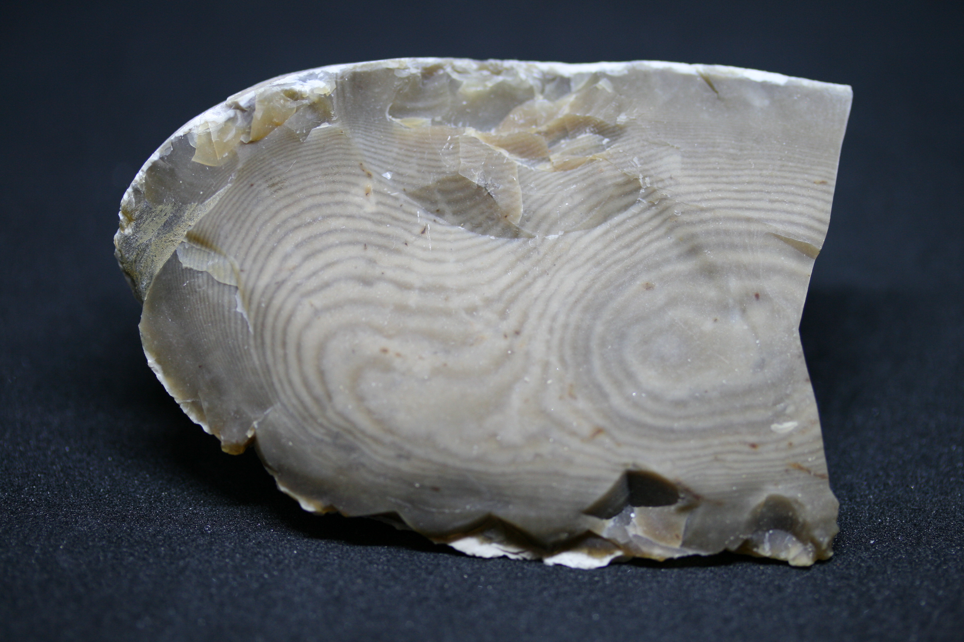 Section of a nodule of Miocene banded flint, La Muela (Zaragoza) Spain